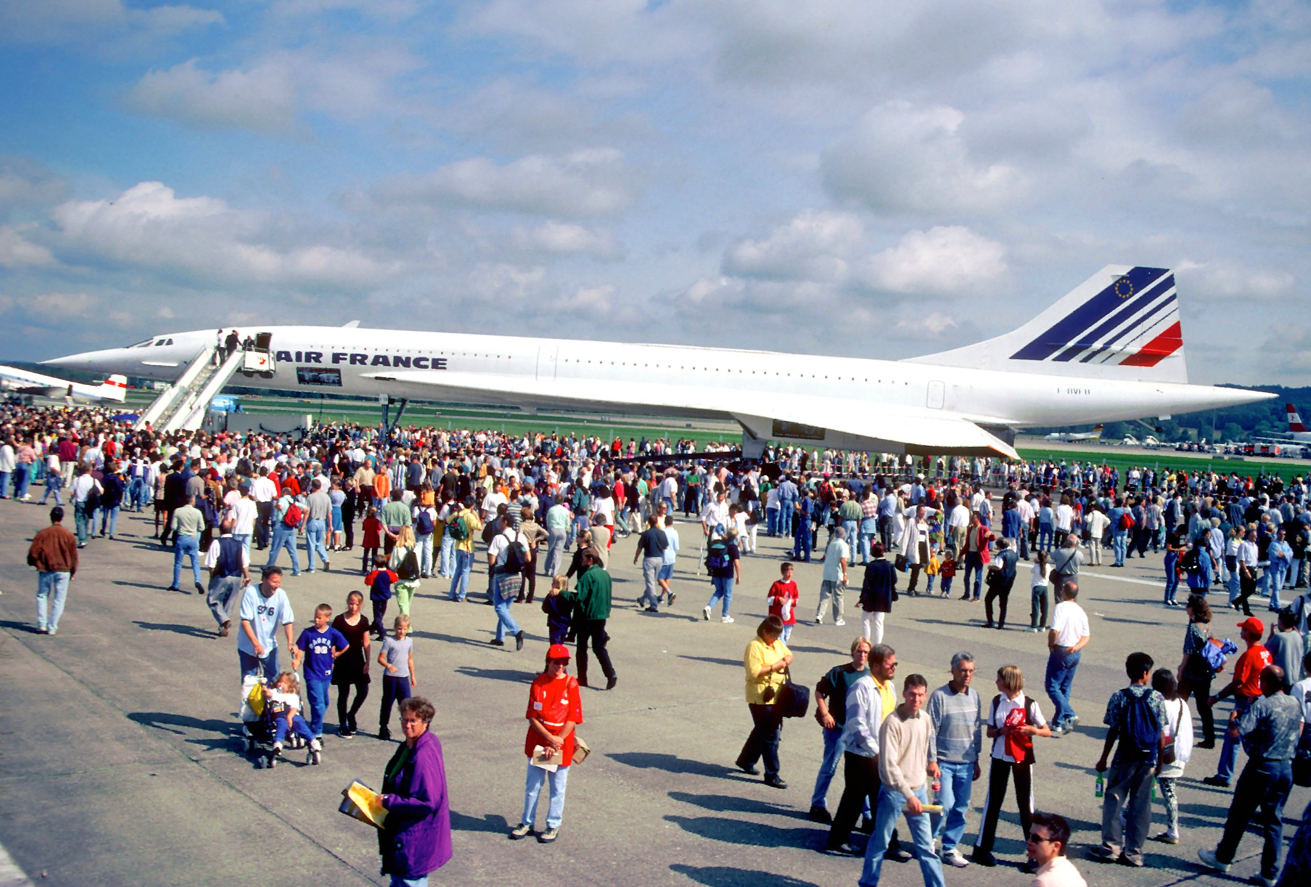 The one and only Concorde at Zürich - celebrating 50 years of Zürich airport...